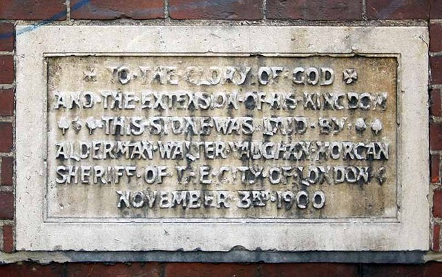 St Matthew's Church, St Mary's Road, Willesden, London NW10 - Foundation stone November 3rd 1900